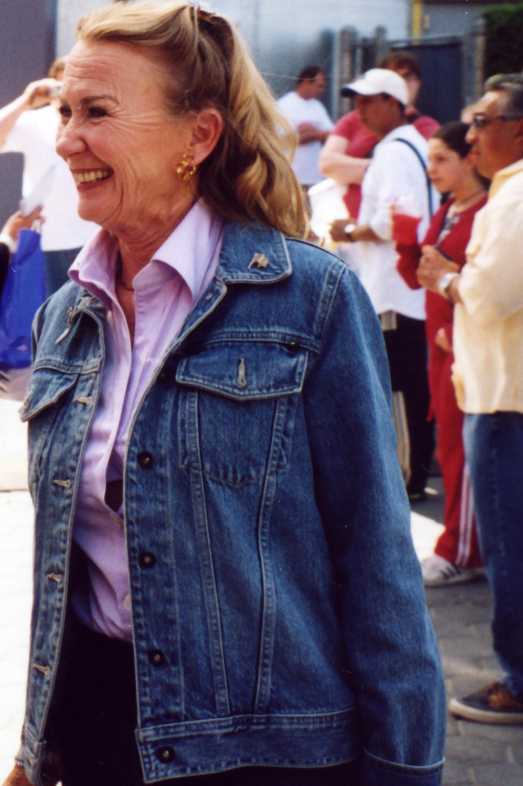 Actress Juliet Mills in 2004.